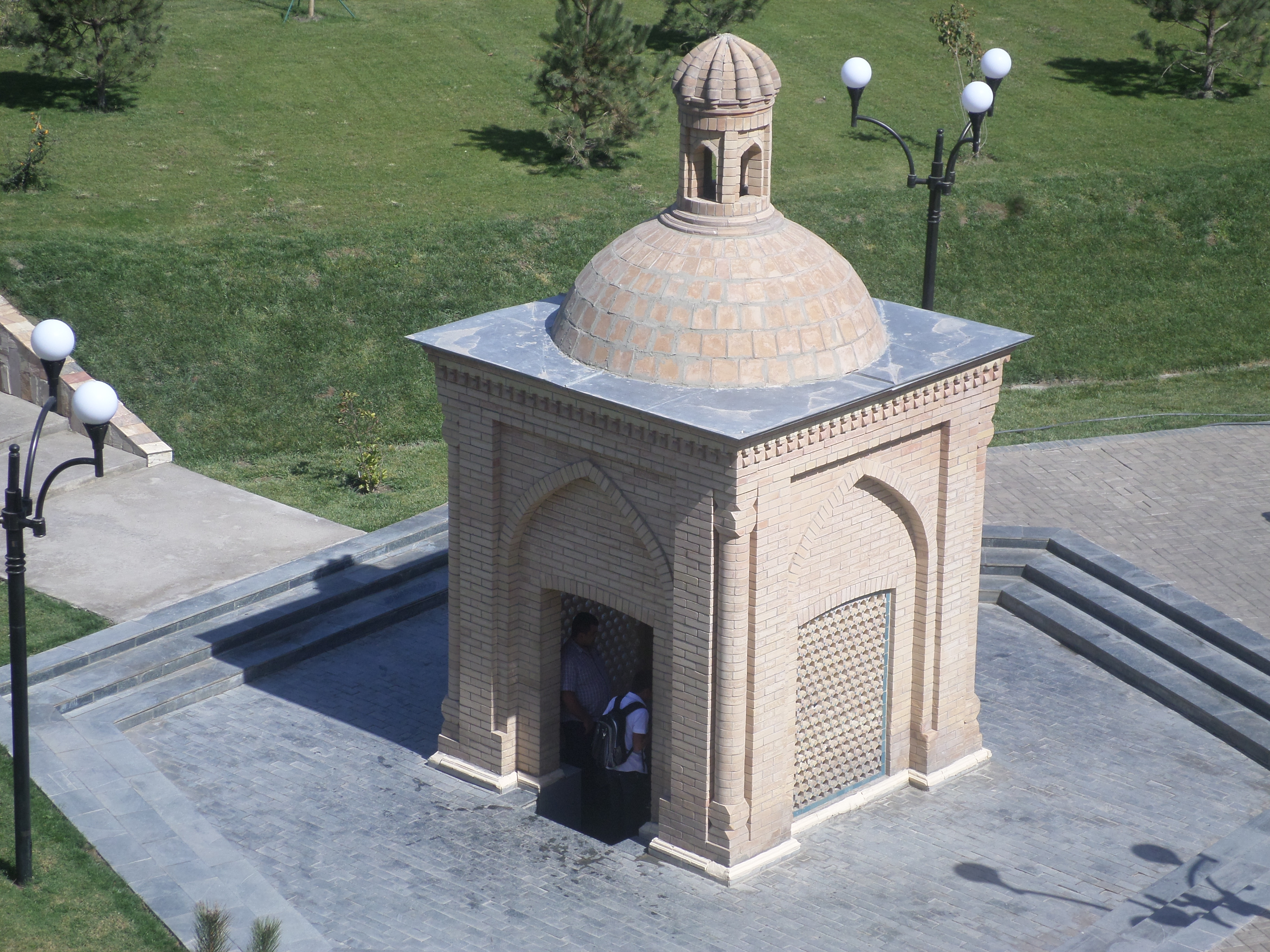 Mausoleum Khoja Daniyar